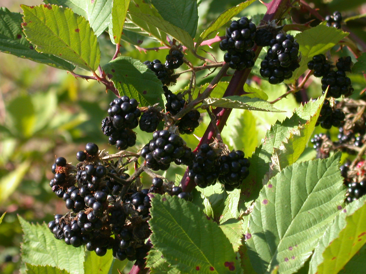 Blackberry plants infected with rust fungus, a biological control agent for blackberry. The newly released strains of the European blackberry rust fungus (Phragmidium violaceum) are highly host-specific for weedy blackberries.